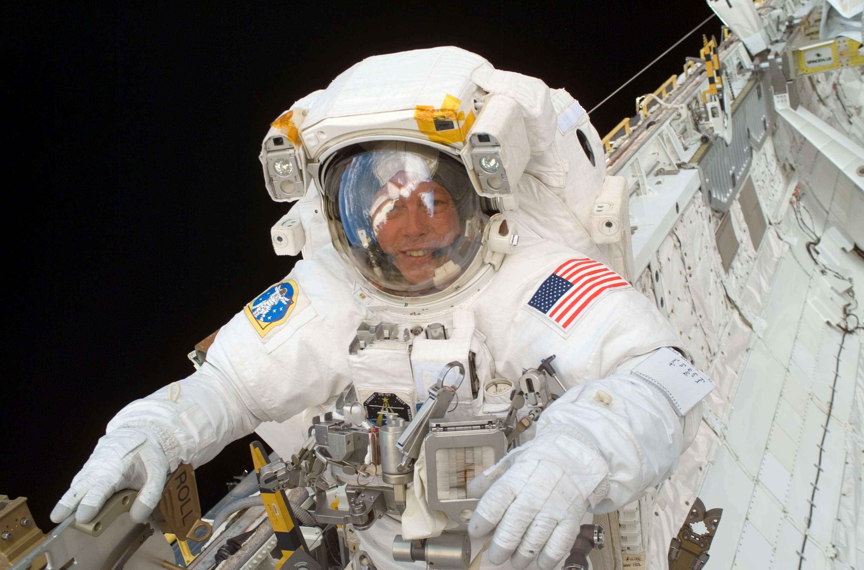 S121-E-06679 --- Astronaut Michael E. Fossum, STS-121 mission specialist, works in Space Shuttle Discovery's cargo bay during the mission's third and final session of extravehicular activity (EVA). The demonstration of orbiter heat shield repair techniques was the objective of the 7-hour, 11-minute excursion outside the shuttle and the International Space Station.